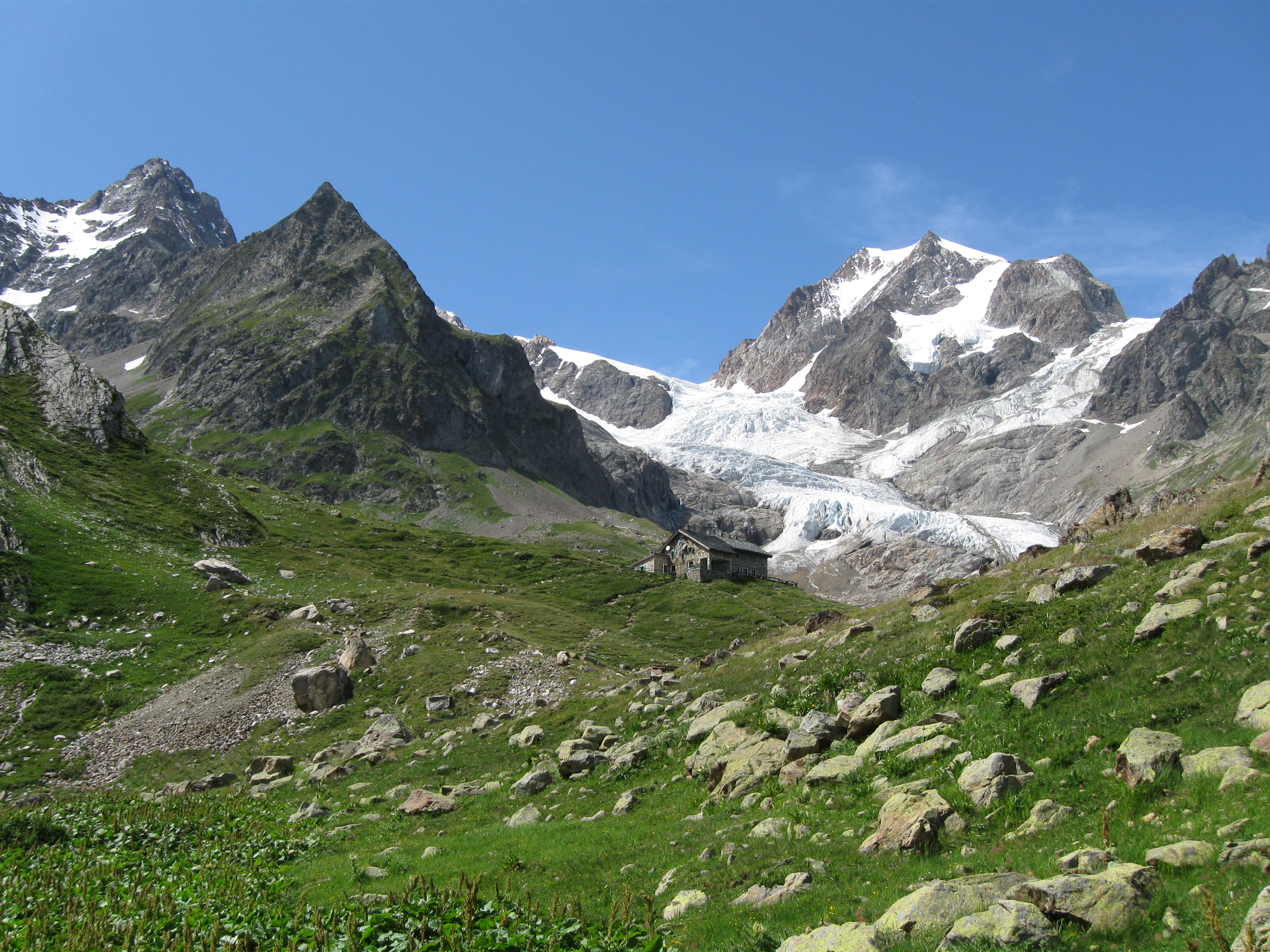 Rifugio Elisabetta Soldini Montanaro (CAI).